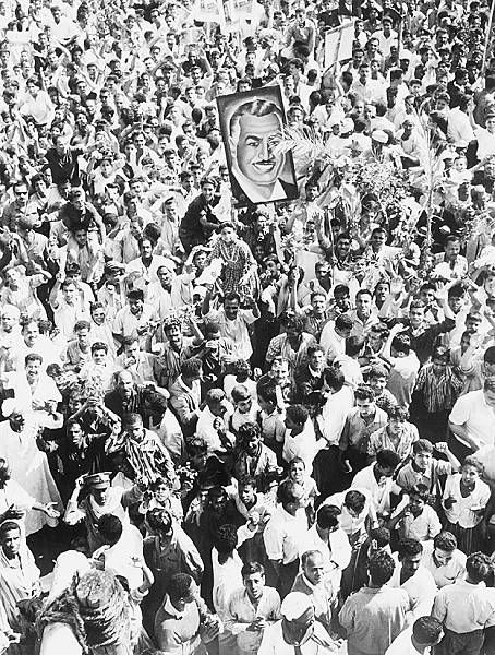 Egyptians pour into the streets on 9 and 10 June, shouting, "we shall fight"